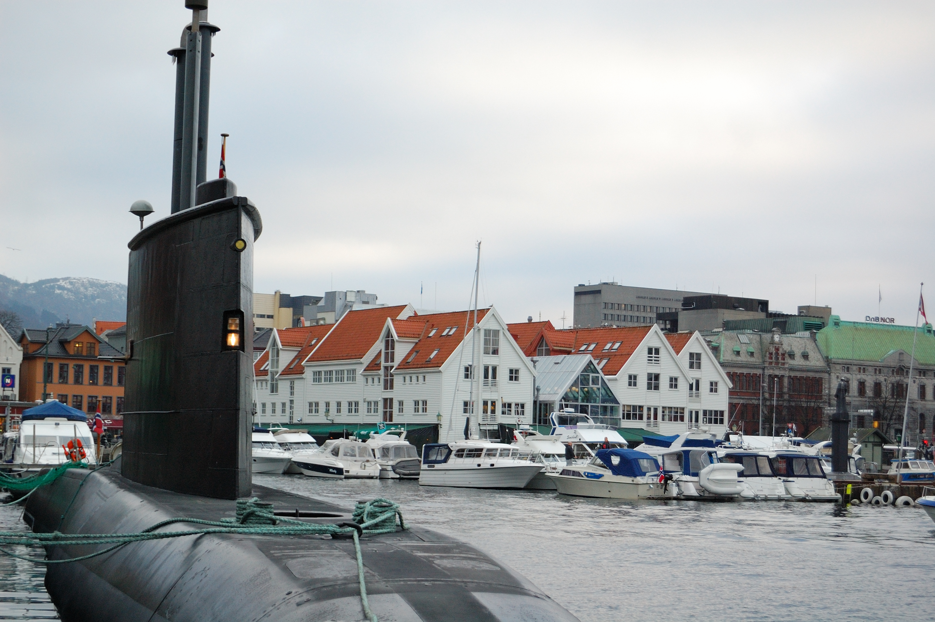 Submarine S 300HNoMS Ula in Bergen, Norway.